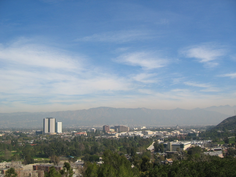 The city of Burbank, CA looking east from Universal Studios. The Universal backlot can be seen in the foreground with Warner Bros. and the rest of Burbank beyond.